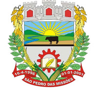 Coat of arms of the city of São Pedro das Missões, Rio Grande do Sul, Brazil.